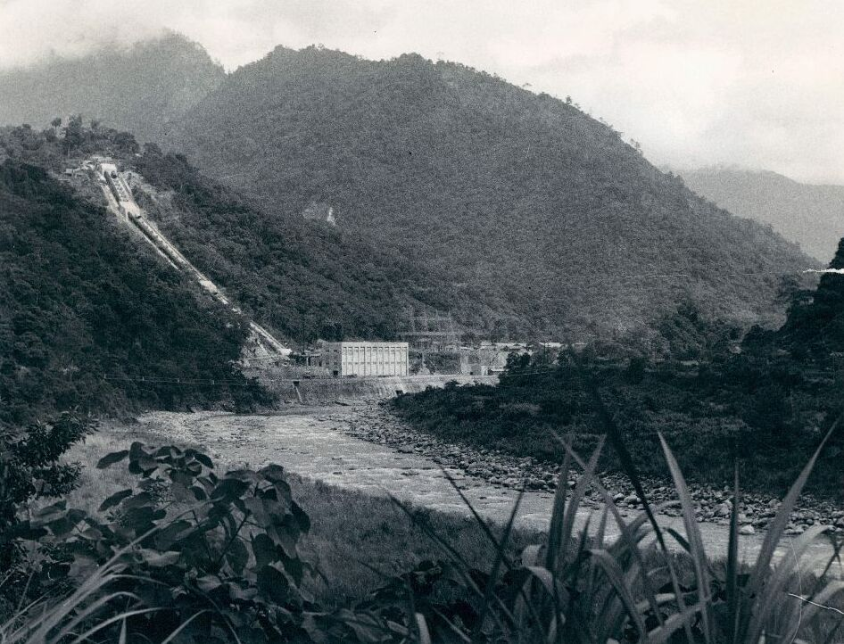 1957 Tien Lun Power Plant In Central Taiwan